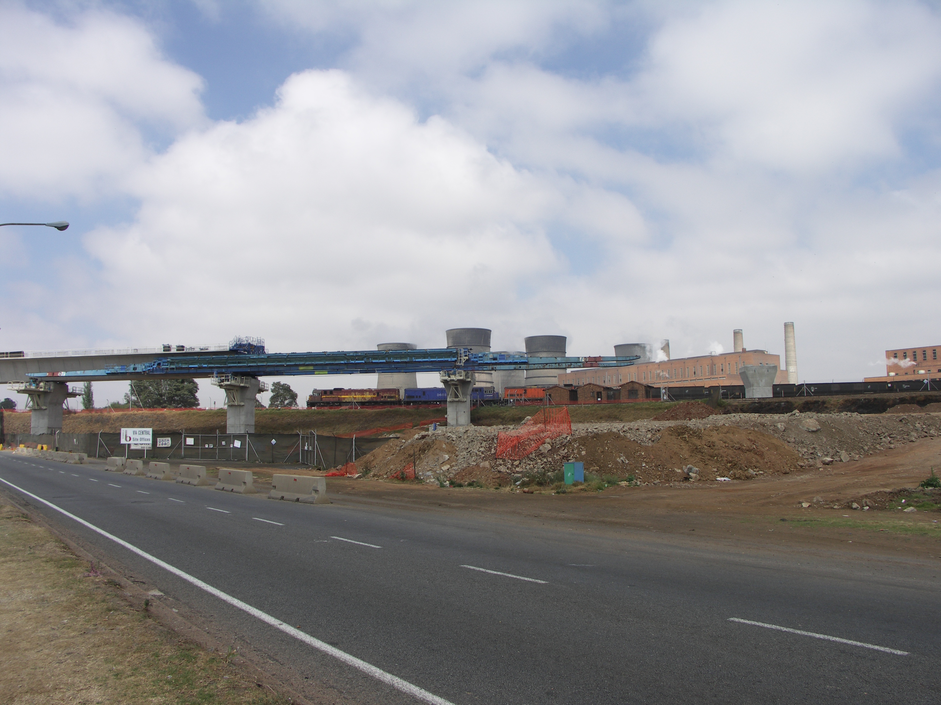 Gautrain viaduct construction in Spartan close to O.R. Tambo Airport. kelvin Power Station in the background.